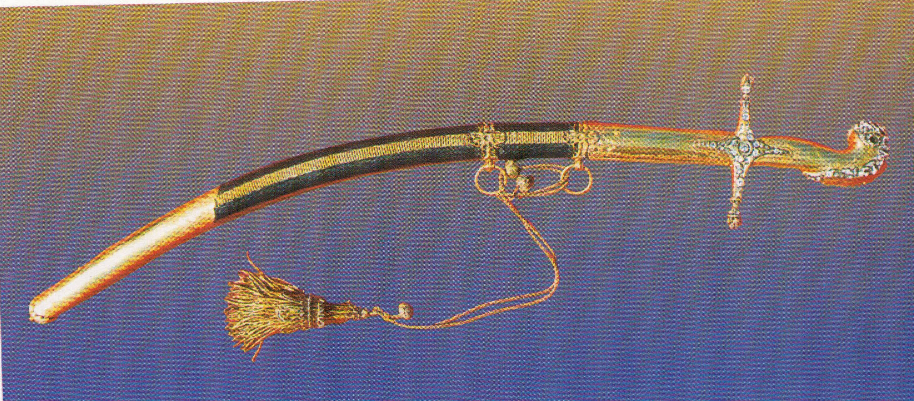 سيف من الصلب بمقبض مرصع ب600 ماسة و غمد السيف له تلبيسة من الذهب يعود للامير يوسف كمال